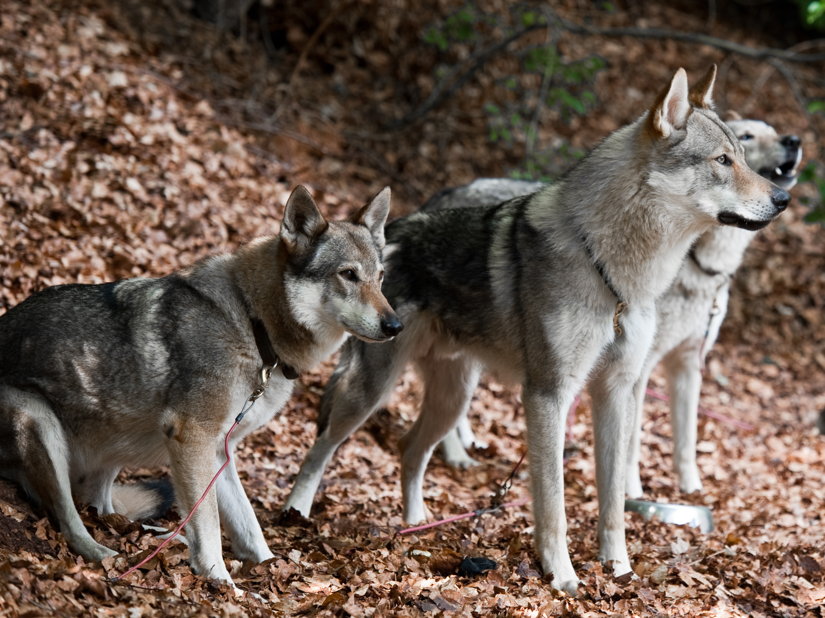 The Czechoslovakian Wolfdog is a relatively new breed of dog from Eastern Europe. It is a cross between a German Shepherd and a Eurasian wolf. It looks mostly like a wolf but behaves like a dog. Until 2008 it was classified a 'Dangerous Wild Animal' in the UK.